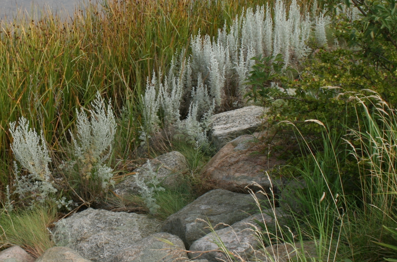 Artemisia maritima at a natural habitat near the coast of the Kattegat